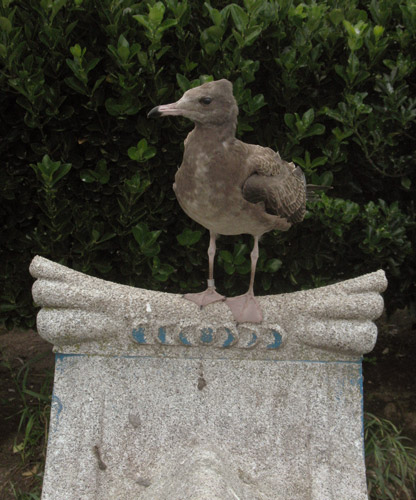 Juvenile Black-tailed Gull (Larus crassirostris) at Kabushima Shrine, Hachinohe, Aomori, Japan.